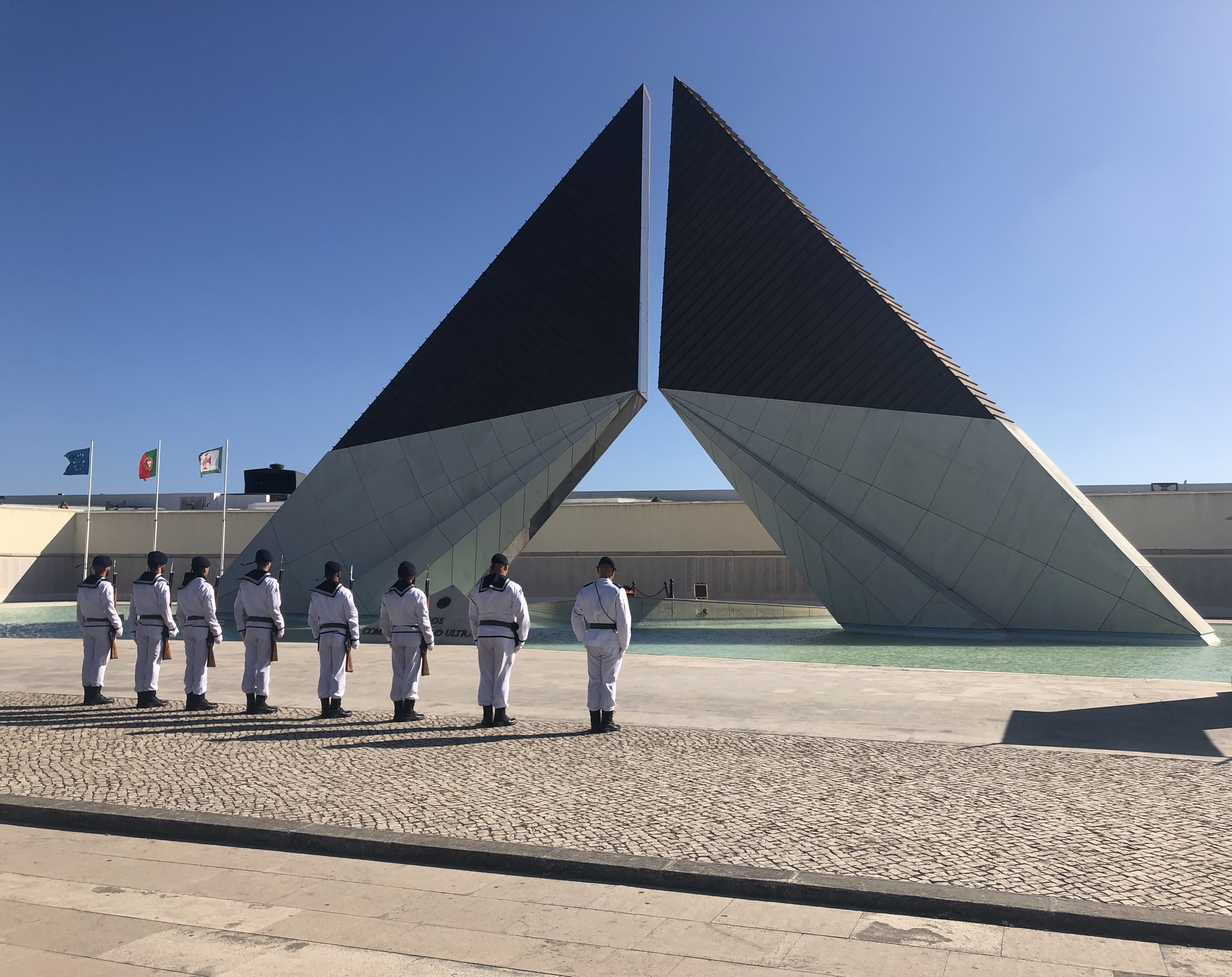 Navy ceremony in front of the Overseas War Combatant Memorial, July 26, 2019.